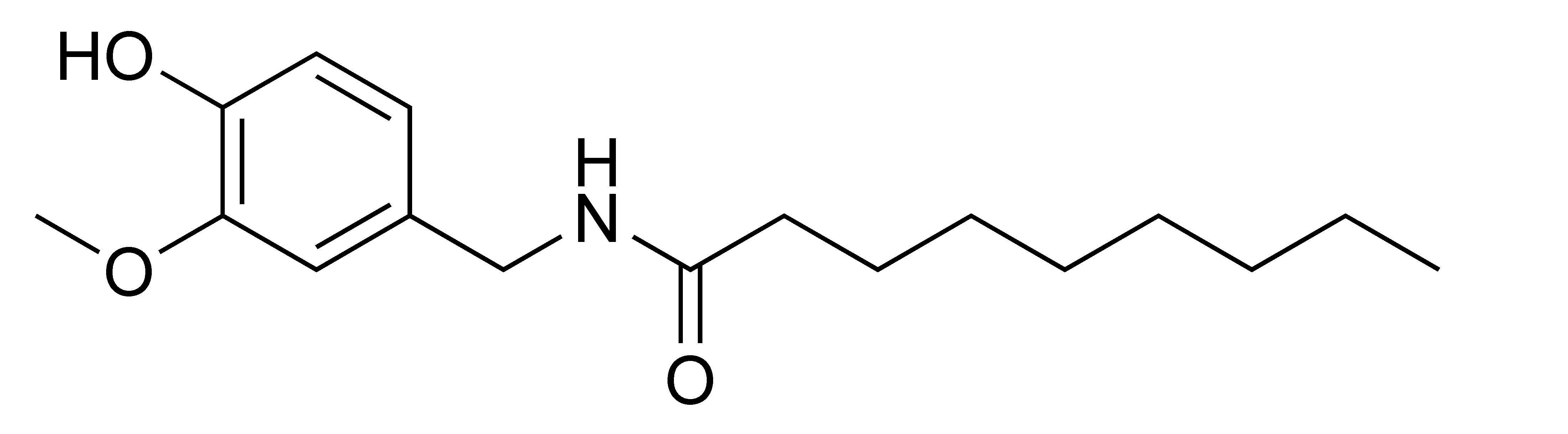 chemical structure of nonivamide